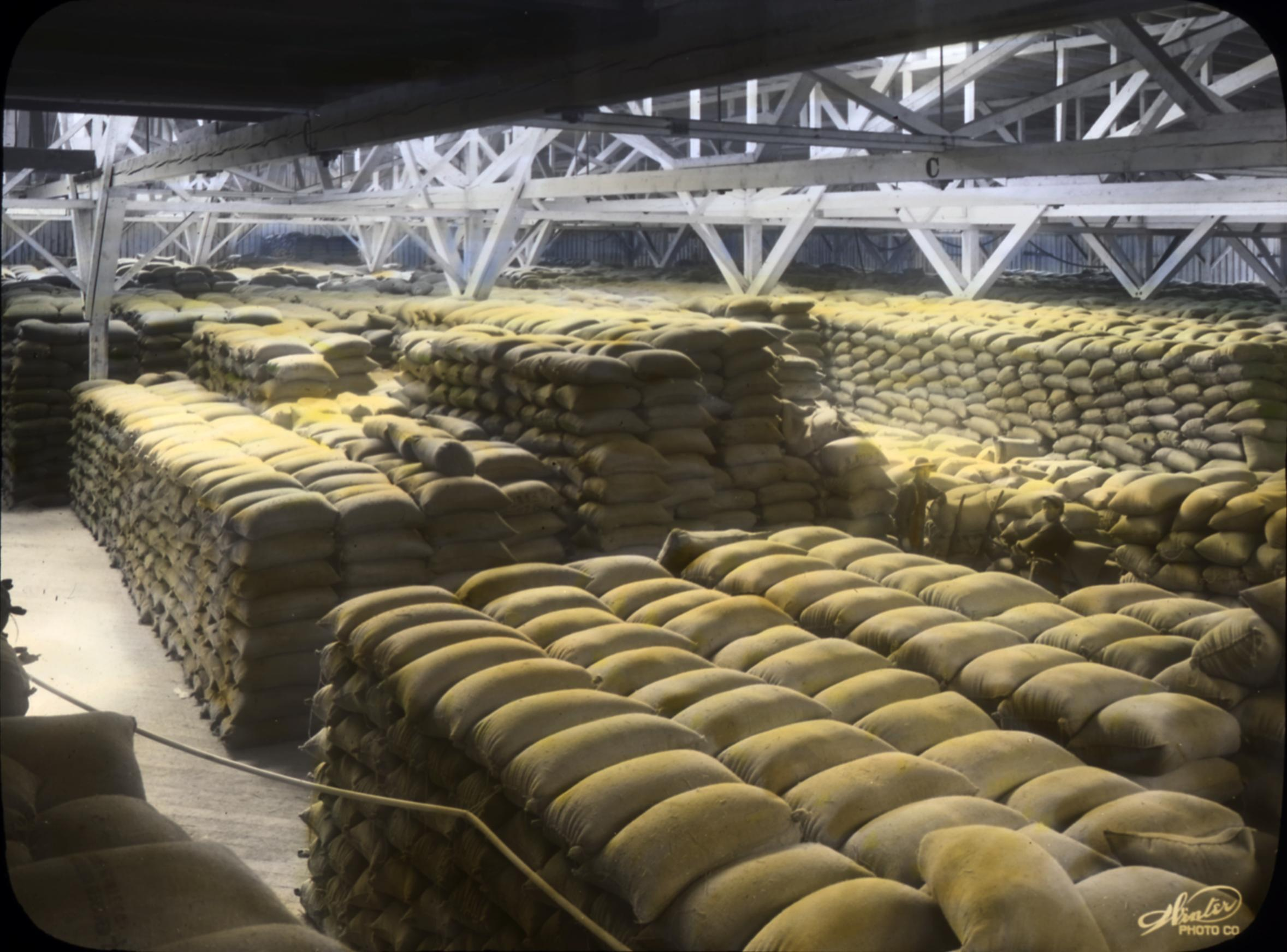 Image Description: “The vast amount of wheat handled through the Port of Portland is not all from Oregon but much of it comes from the great fields of the upper Columbia valley and its tributaries.” Original Collection: Visual Instruction Department Lantern Slides Item Number: P217:set 035 020 You can find this image by searching for the item number by clicking here. Want more? You can find more digital resources online. We're happy for you to share this digital image within the spirit of The Commons; however, certain restrictions on high quality reproductions of the original physical version may apply. To read more about what “no known restrictions” means, please visit the Special Collections & Archives website, or contact staff at the OSU Special Collections & Archives Research Center for details.